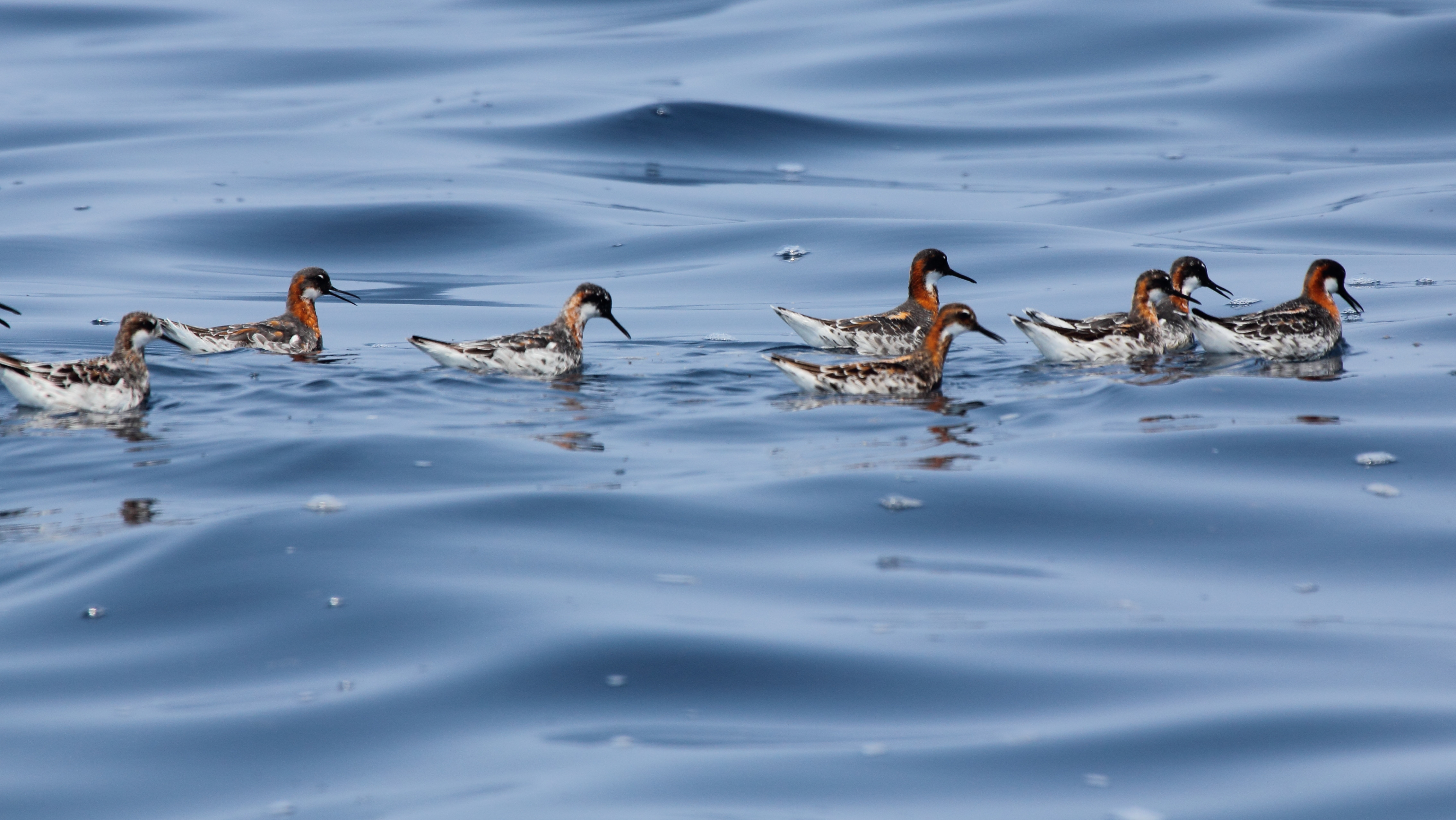 Red-necked Phalarope Phalaropus lobatus south of Puerto Quetzal, Guatemala.